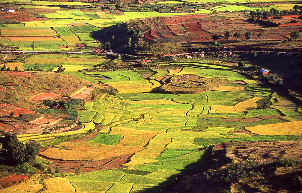 Countryside in the highlands of Madagascar